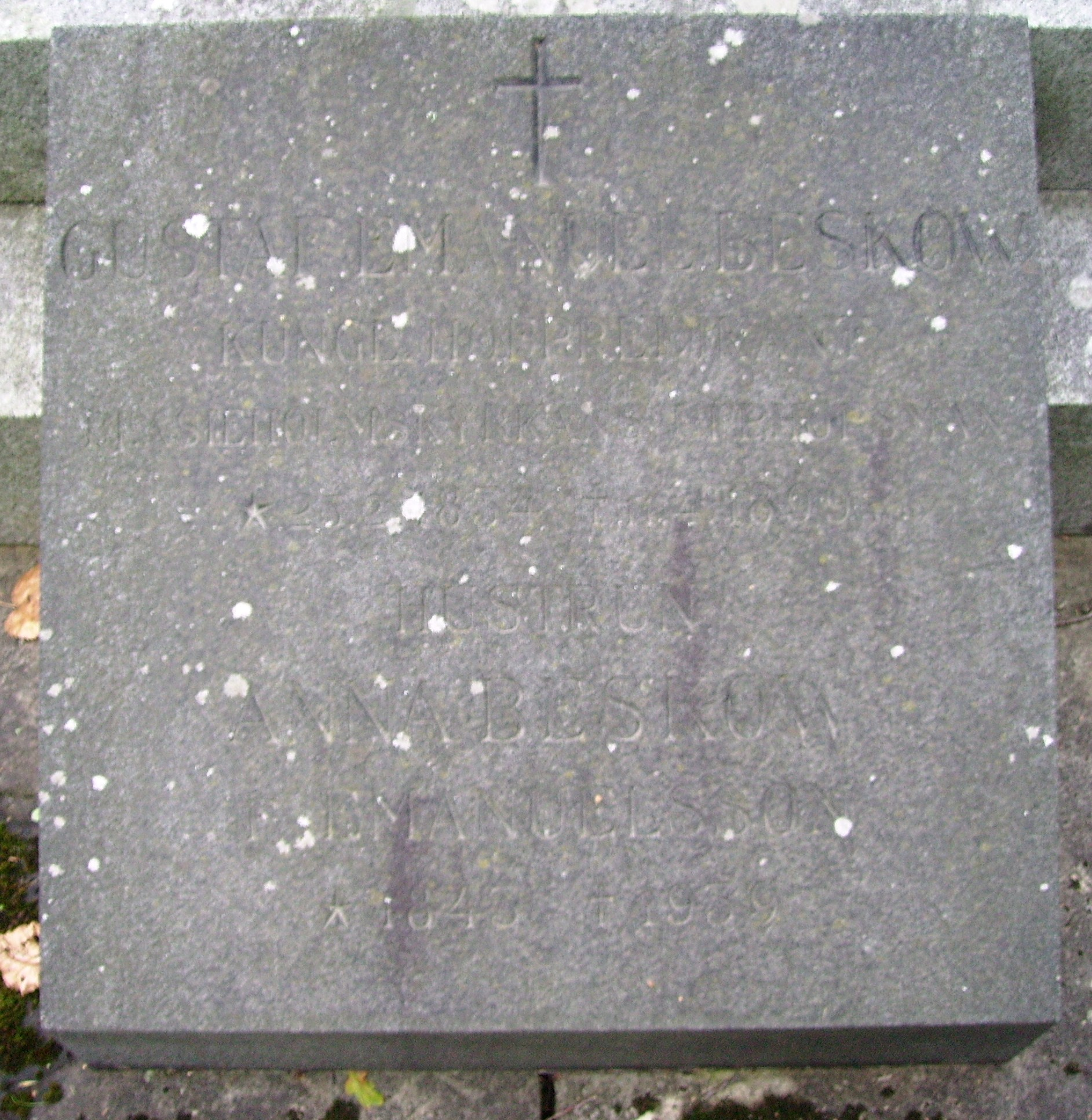 Picture of Gustaf E. Beskow's grave at Norra begravningsplatsen in Solna